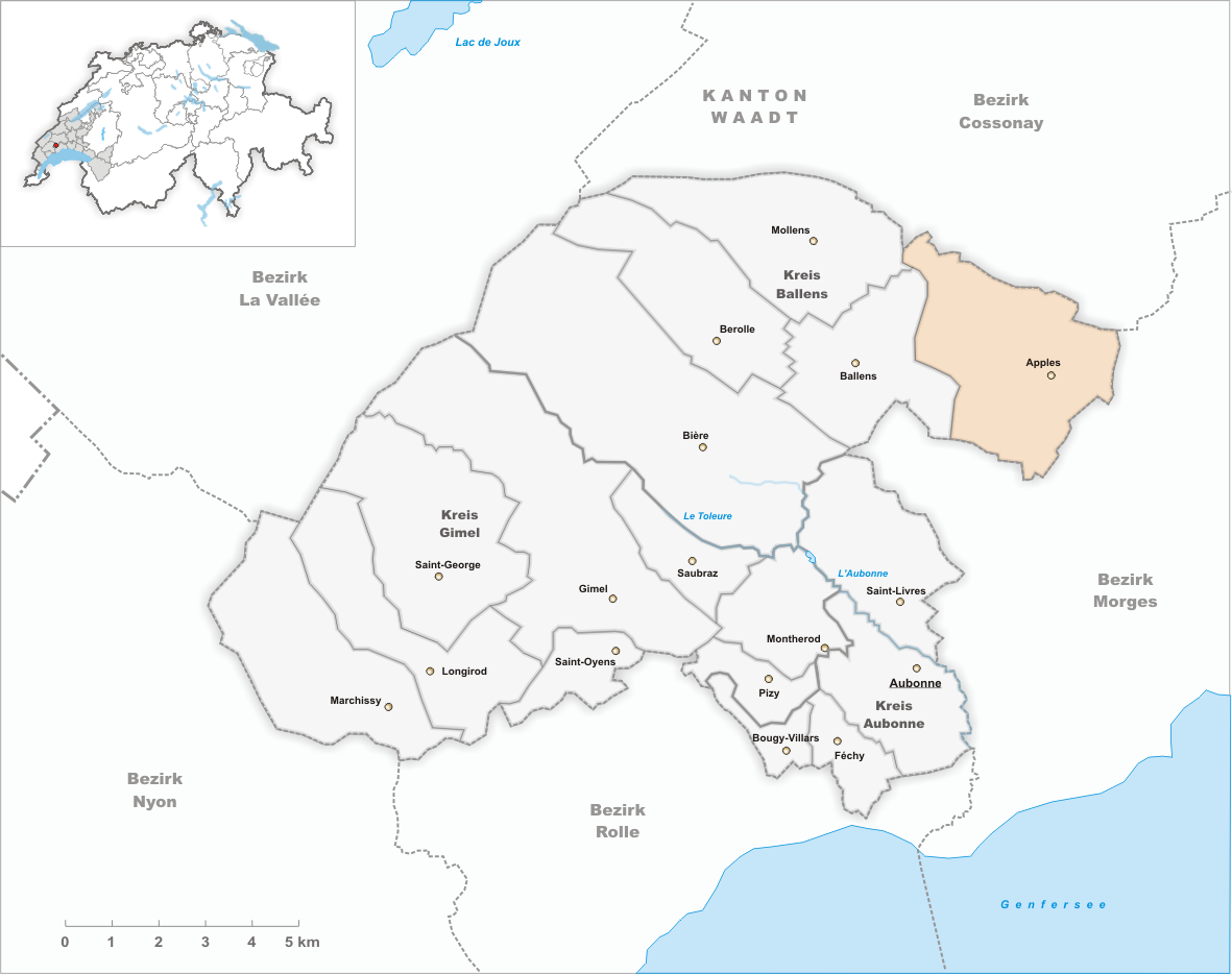 Municipality Apples